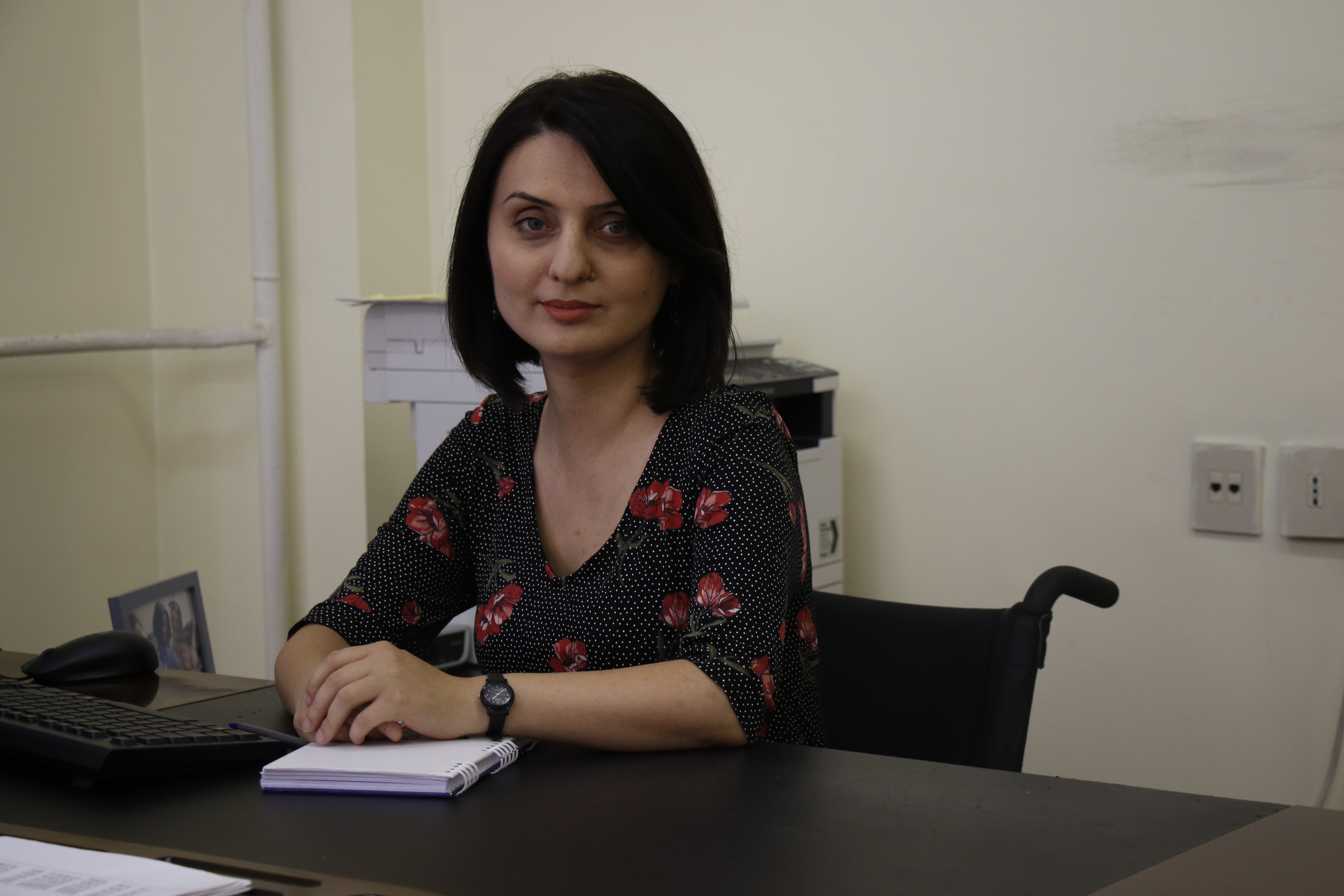 Member of "Civil Contract" political party of Armenia.